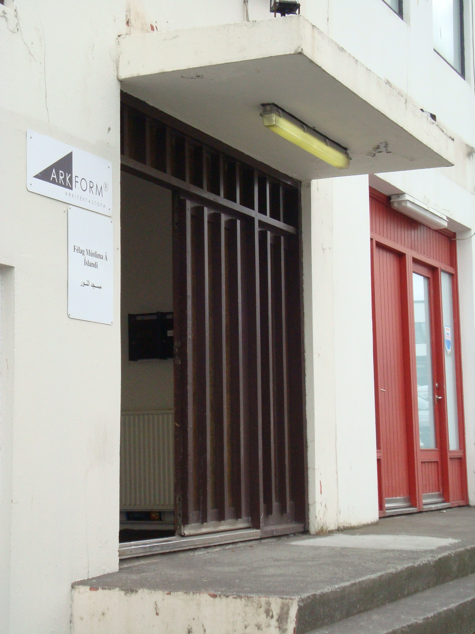 The Reykjavik Mosque located in Ármúli in Reykjavík, Iceland, which is also home to the Association of Muslims in Iceland Нохчийн: Мешит Рейькявикахь Исландийн Пачхьалха чохь. Иза Аурмули чохь. Иза кхин а меттиг Хьехам Бусулба Исландахь бу. Sámegiella: Mohska Reykjavíkis Islánddas lea Ármúliis ja lea oaivehuksehus Searvi Musliimiid Islánddas